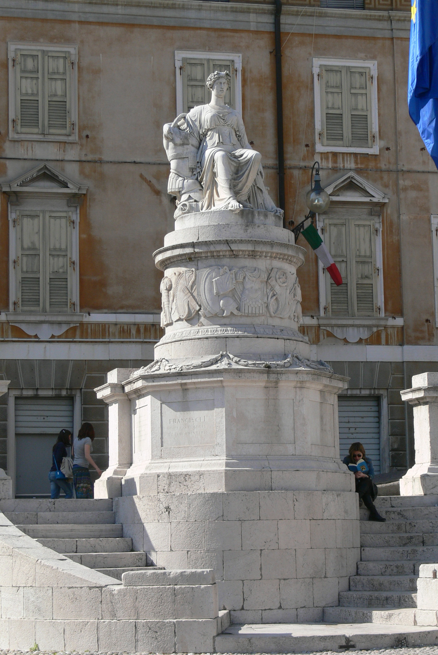 Udine, Italy. Piazza Libertá: Monument of peace, odered by Napoleon in 1797 after the peace treaty of Campoformido, completed in 1819 by Ferdinand of Habsburg.